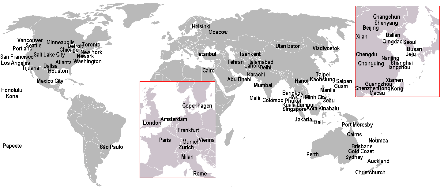 Cities with direct international airlinks to Tokyo Haneda airport